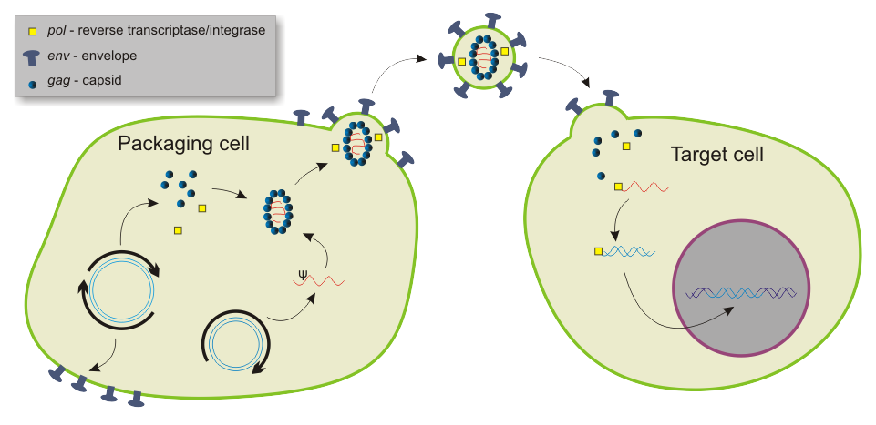 Packaging and infection by a lentiviral vector